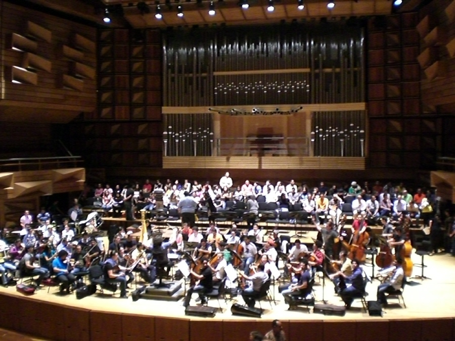 Simón Bolívar Concert Room at the Social Action Center for Music, Caracas, Venezuela.